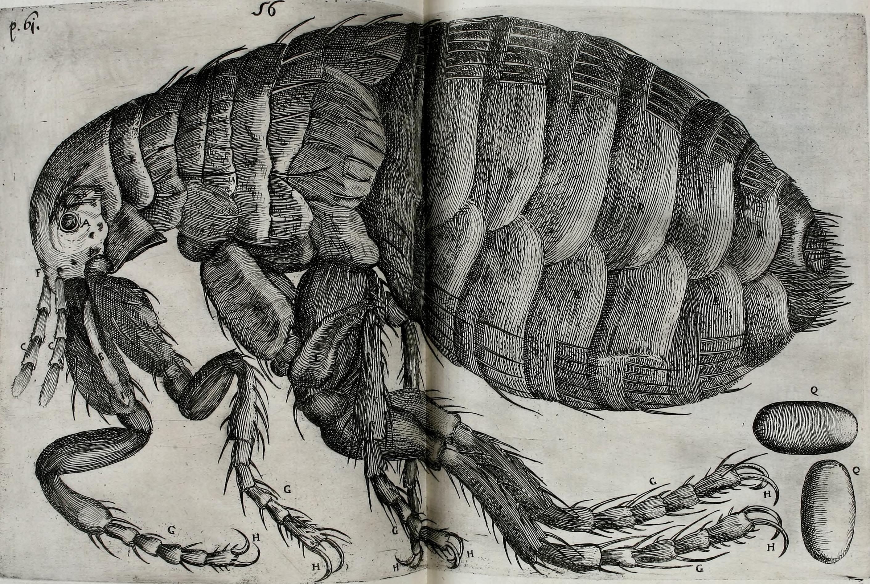 Title: Obseruationes circa viuentia, quæ in rebus non viuentibus reperiuntur : Cum micrographia curiosa siue Rerum minutissimarum obseruationibus, quæ ope microscopij recognitæ ad viuum exprimuntur : his accesserunt aliquot animalium testaceorum icones non antea in lucem editæ : omnia curiosorum naturæ exploratorum vtilitati & iucunditati expressa & oblata Year: 1691 (1690s) Authors: Buonanni, Filippo, 1638-1725 Buonanni, Filippo, 1638-1725. Micrographia curiosa. 1691 Buonanni, Filippo, 1638-1725. Ricreazione dell'occhio e della mente nell'osservazione delle chiocciole Buonanni, Filippo, 1638-1725. Supplementum Recreationis mentis et oculi in observatione testaceorum. 1691 Hedio, Andreas, former owner. DSI Pergande, Theodore, d. 1916, former owner. DSI Bibliotheca Seminarii Plocensis, former owner. DSI Subjects: Natural history Microscopes Microscopy Spontaneous generation Mollusks Publisher: Romæ : Typis Dominici Antonij Herculis Text Appearing Before Image: 1 Text Appearing After Image: '